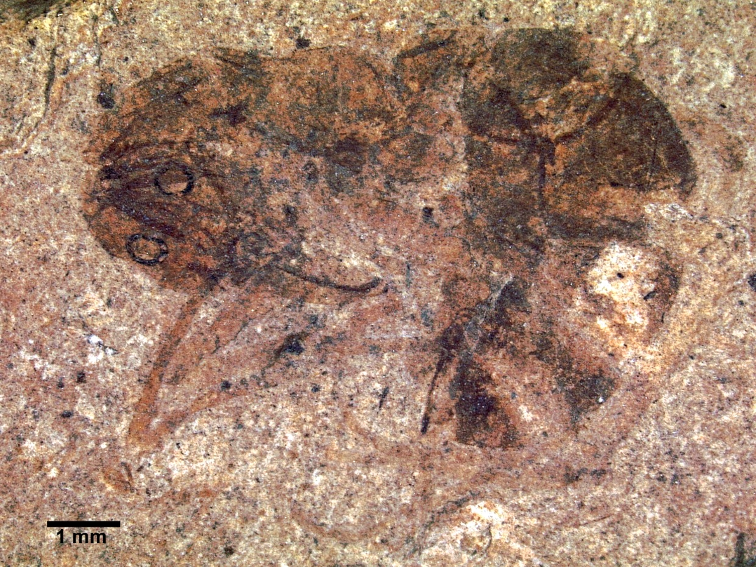 Prionomyrmex wappleri specimen